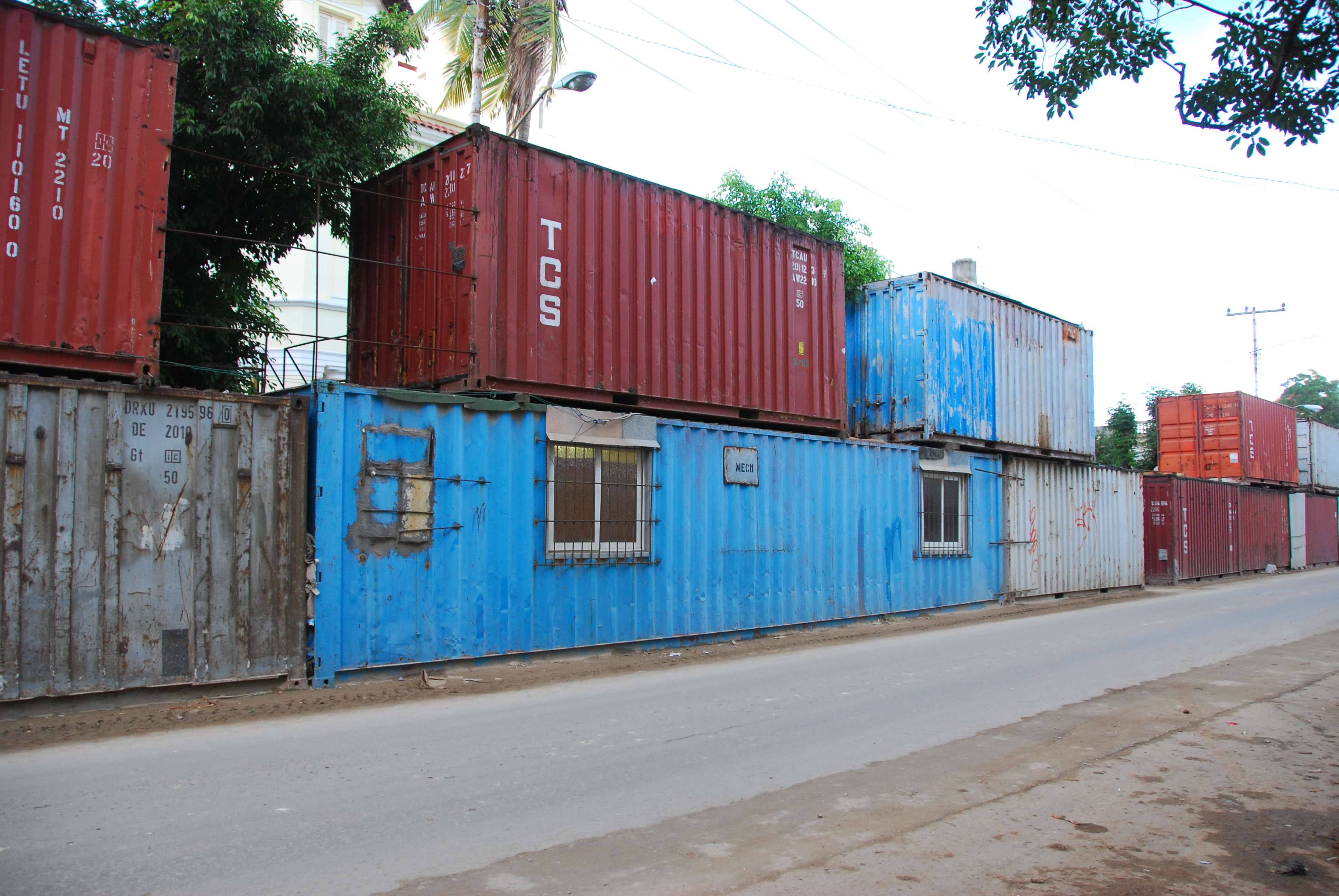 Cubans live in old shipping containers. So do some of the GIs at Guantanamo. Original caption: Living space constructed from old sea containers next to a construction site in Havana, Cuba